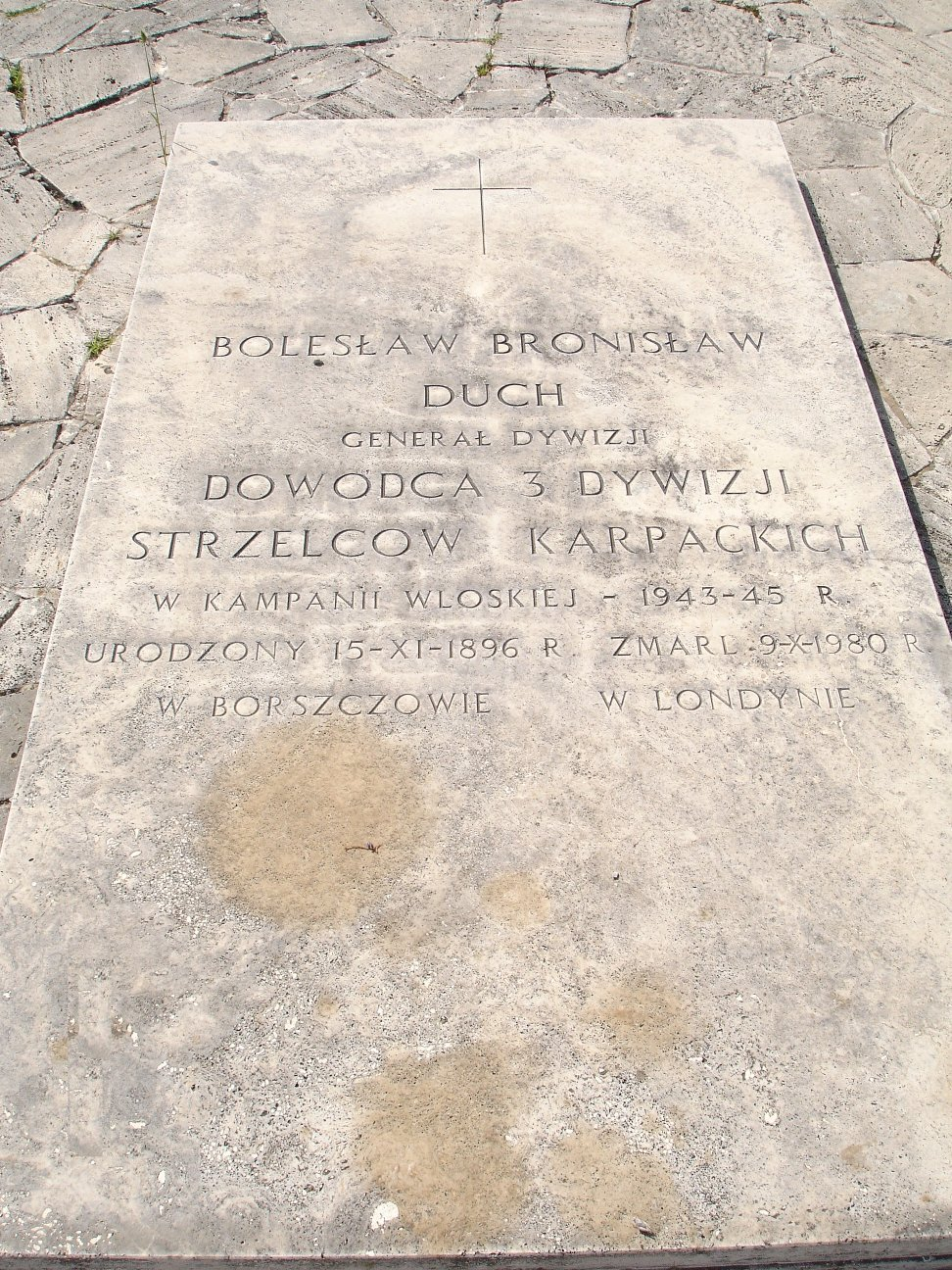 The tombstone of gen. Bronislaw Duch, on The Polish War Cemetery.